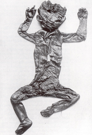 Bog body Röst Girl, a bog body that was destroyed during WWII